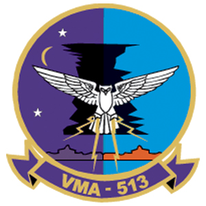 Squadron insignia for VMA-513